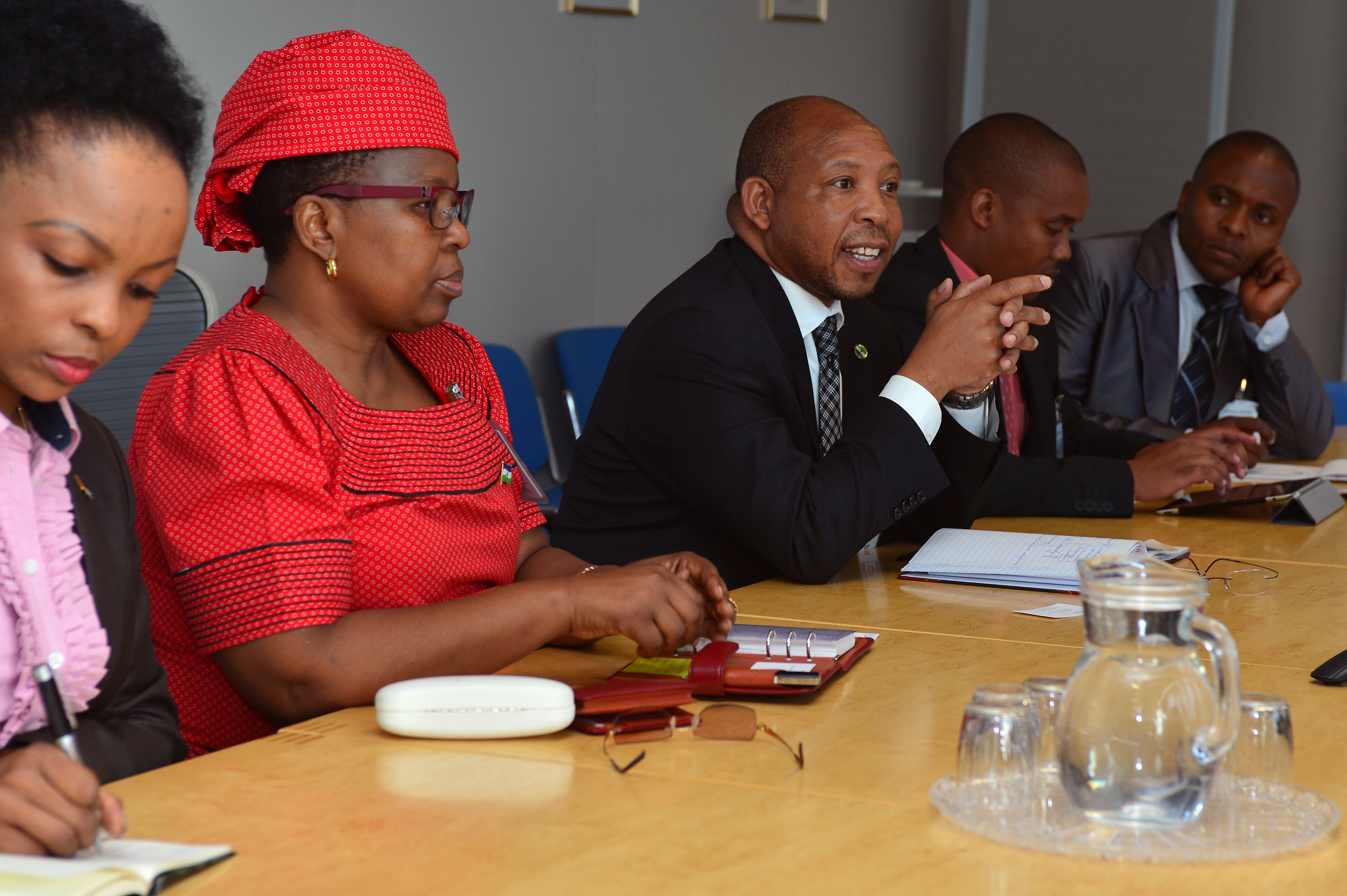 On 2 September 2013, H.E. Moeketsi Majoro, Minister of Development Planning, Kingdom of Lesotho, met with Senior Officials of the IAEA during the Minister's visit to the IAEA headquarters in Vienna, Austria. Photo Credit: Dean Calma / IAEA